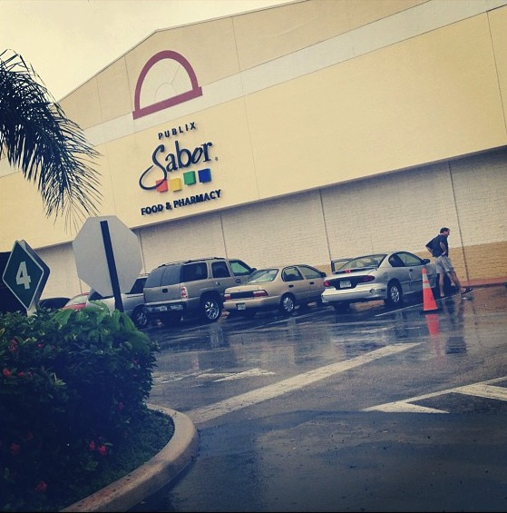 Publix Sabor ("Sabor" is Spanish for flavor) supermarket - 1910 Lake Worth Road